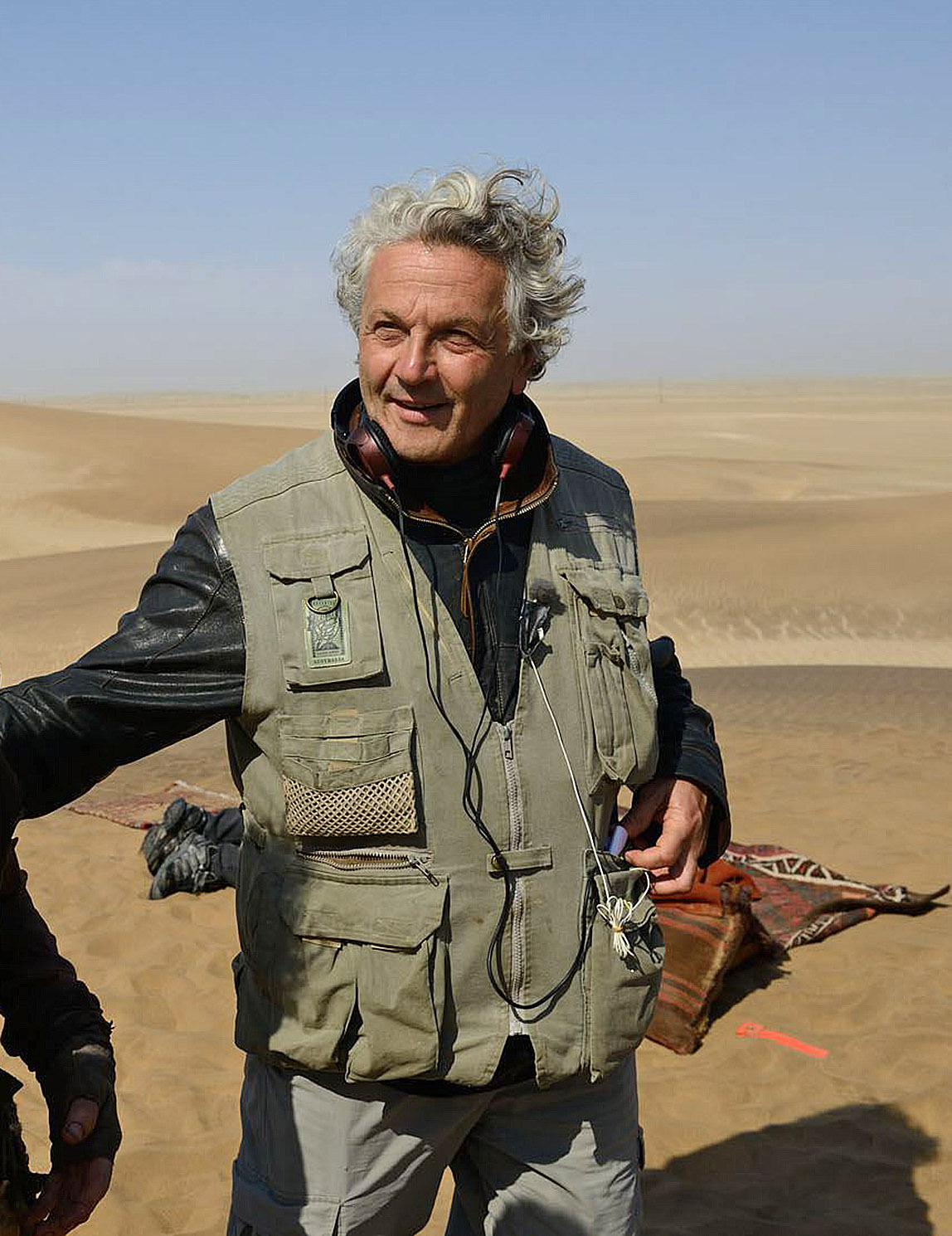 George Miller filming Fury Road